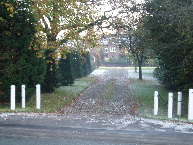 Dukenfield Hall (Knutsford Road Mobberley) Hall dates back to the early 1600s